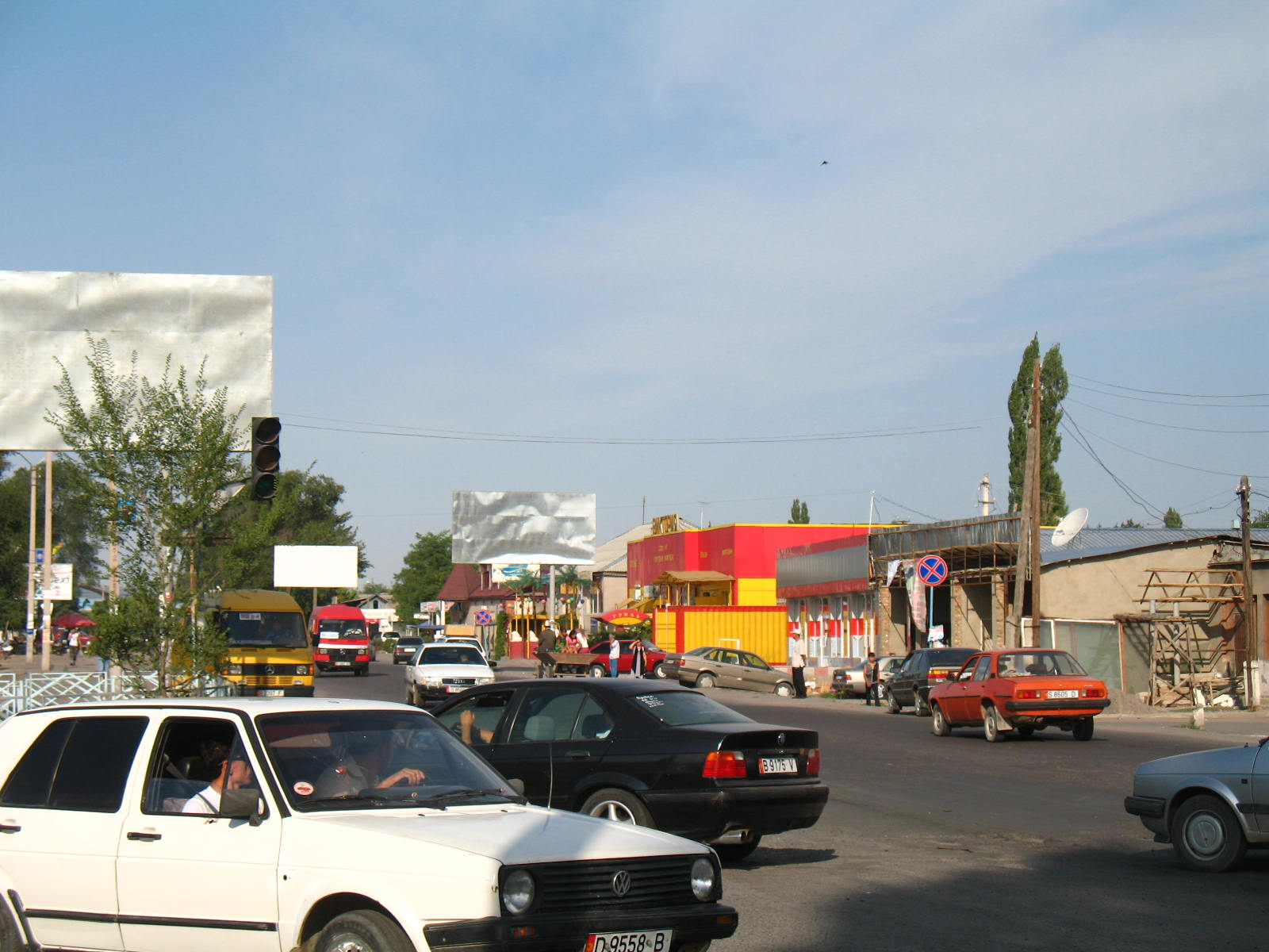 Center of Belovodsk, looking west towards Kara-Balta Кыргызча: Ак-суу (Беловодск)тун борбору, Кара-Балтага кете турган жолдо жайгашкан